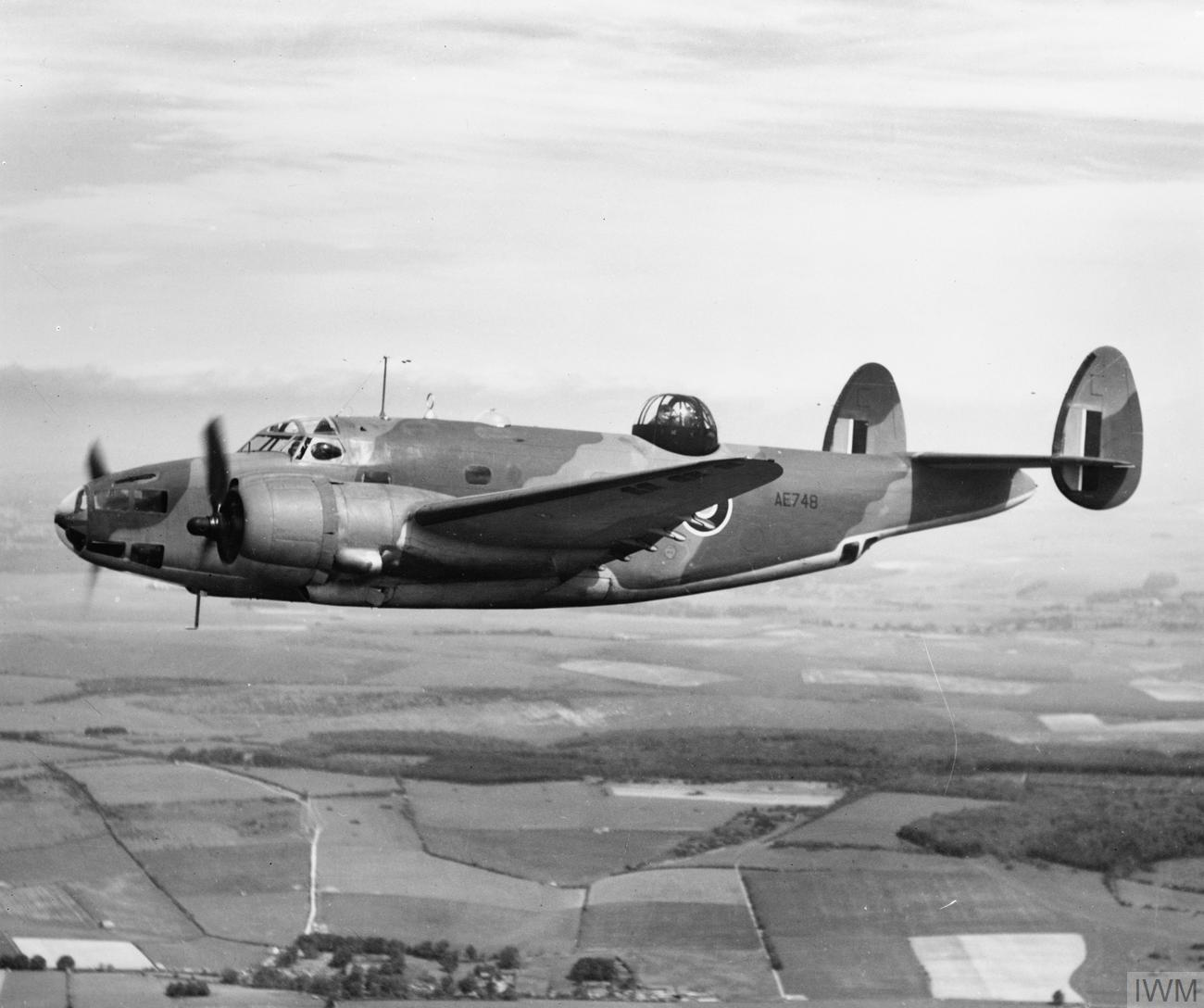 American Aircraft in RAF Service 1939-1945- Lockheed V-146 Ventura. Ventura Mark I, AE748, which served with the Empire Central Flying School at Hullavington, Wiltshire, on a test flight from Boscombe Down.